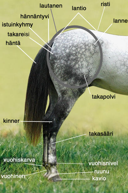 Grey horse back part in profile with structural parts in Finnish